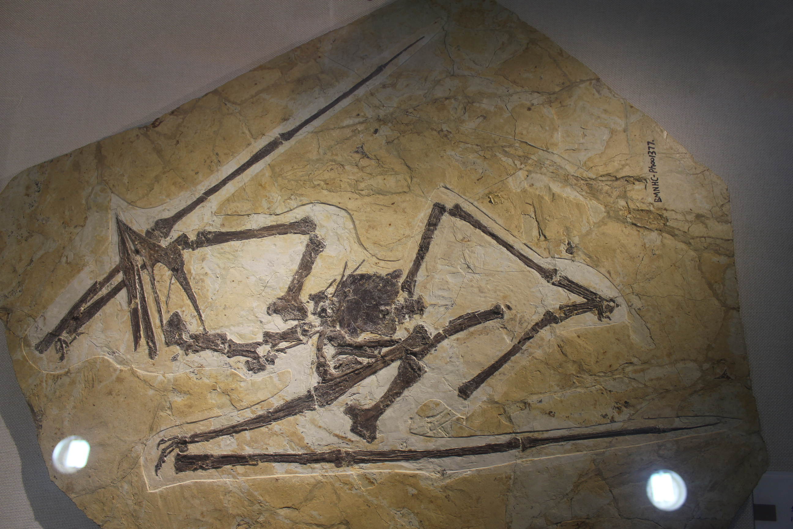 Fossil specimen of Huaxiapterus on display at the Beijing Museum of Natural History.